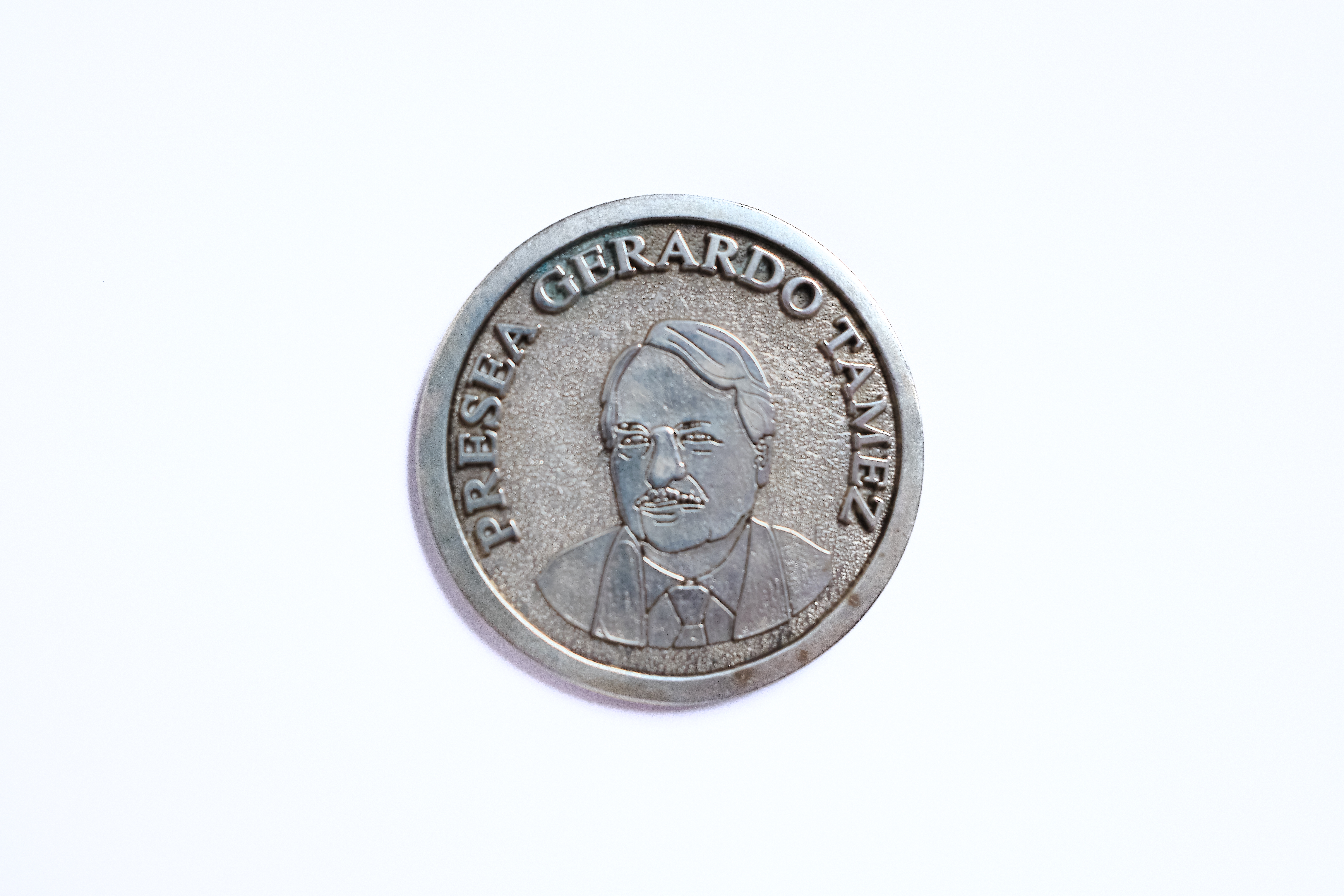 Gerardo Tamez medal 2013